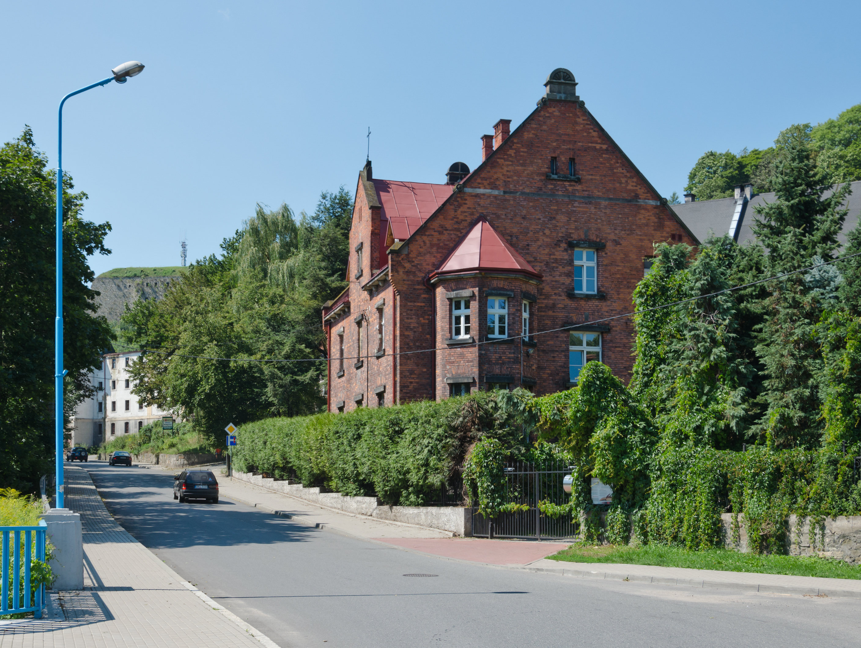 Kolejowa Street in Kłodzko